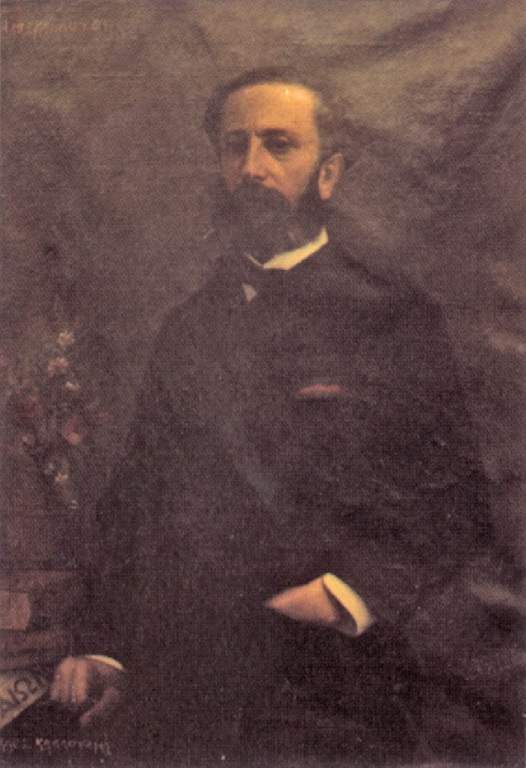 Portrait of Timoleon Filimon